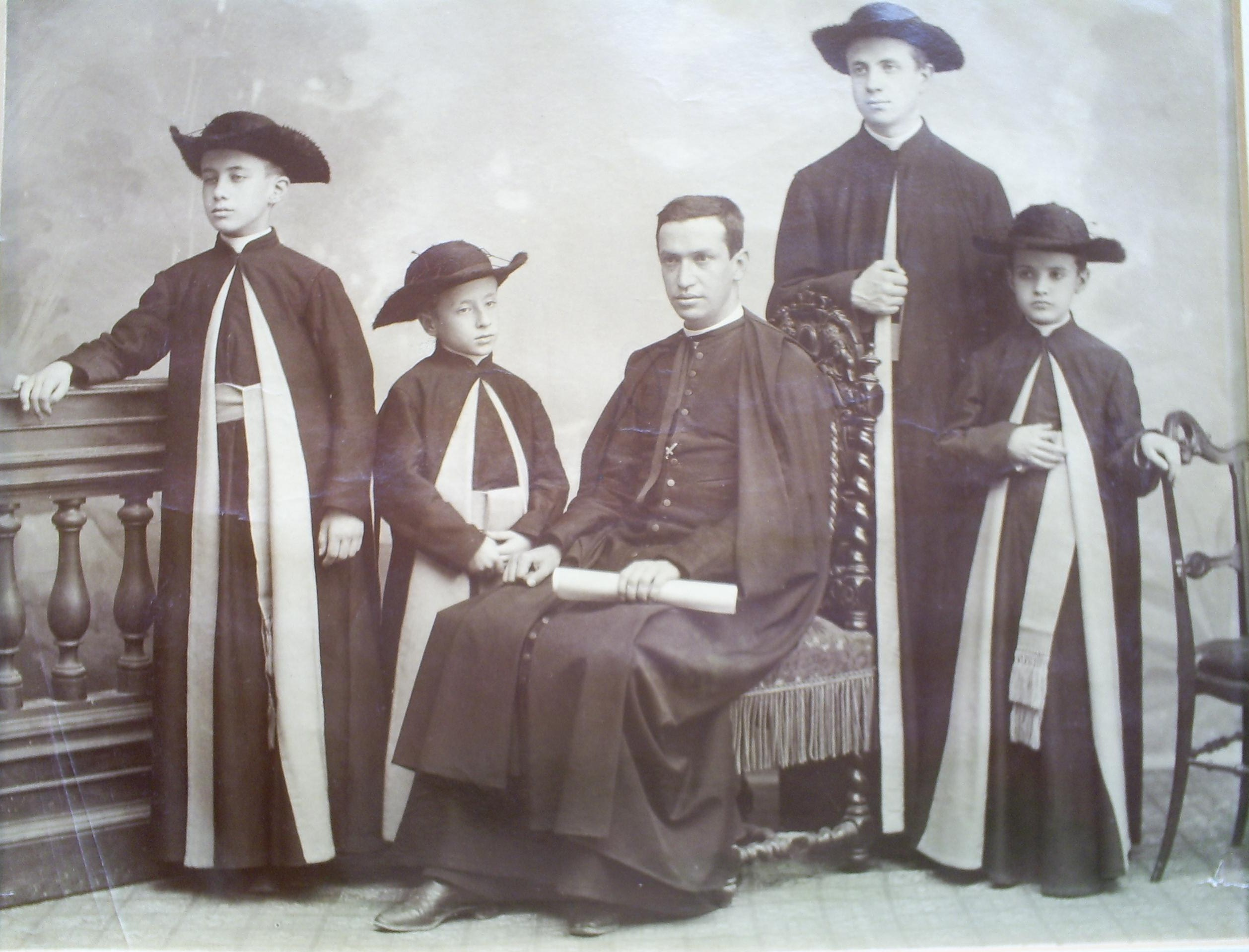 Sitting: Vicar of Puebla de los Angeles Ramón Ibarra y Gonzalez, former first archbishop of Puebla, and from left to right the Tritschler y Córdova brothers, Alfonso, Guillermo and the elder Martín who was an advanced student at the Gregorian University in Rome, and Luis de la Maza. Date: 11 de mayo de 1888.